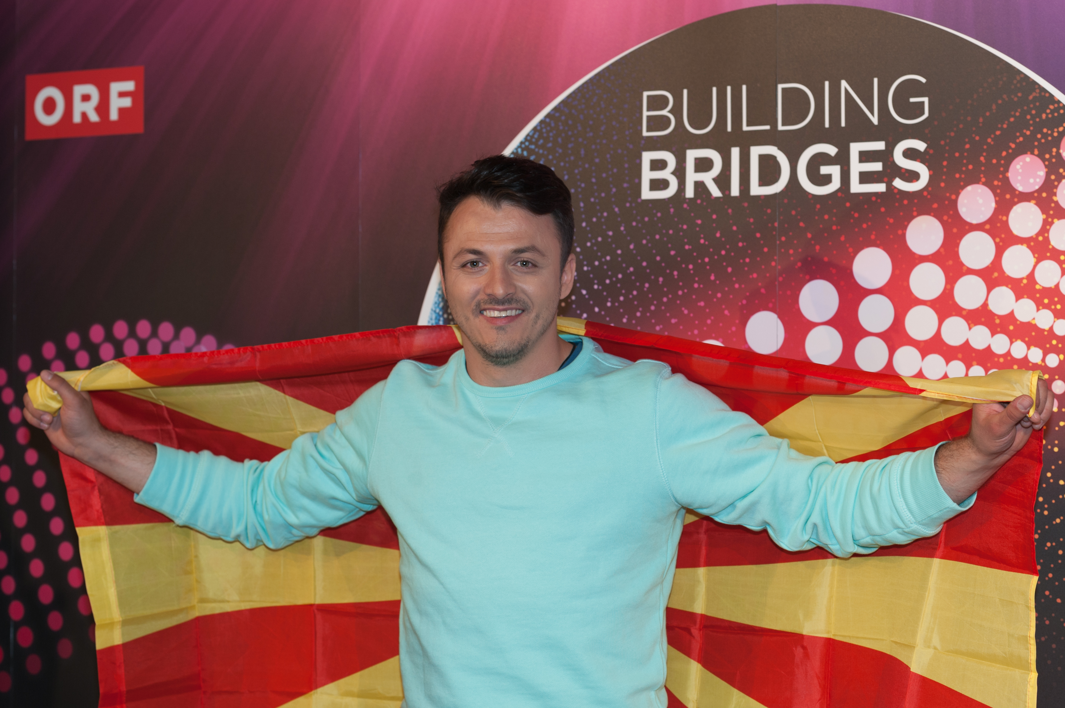 Eurovision Song Contest Vienna 2015: Daniel Kajmakoski